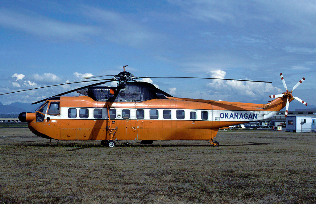 Okanagen Helicopters Sikorsky S-61L C-FOKB at Vancouver Intnational Airport